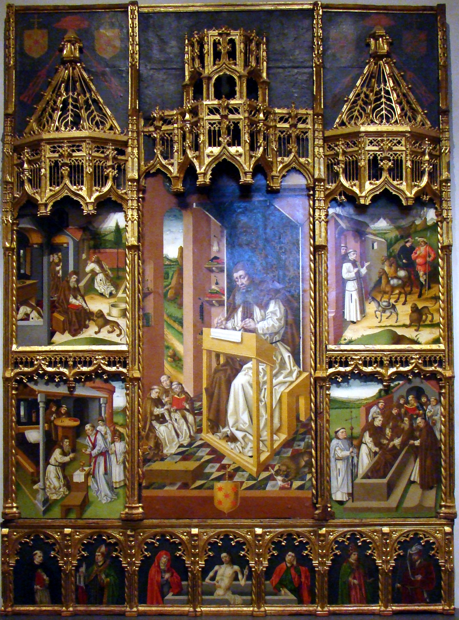 Altarpiece of St. Jerome from the monastery of La Mejorada (Olmedo, Spain). Painting on wood. Painter: Jorge English. Located at the National Museum College of San Gregorio.